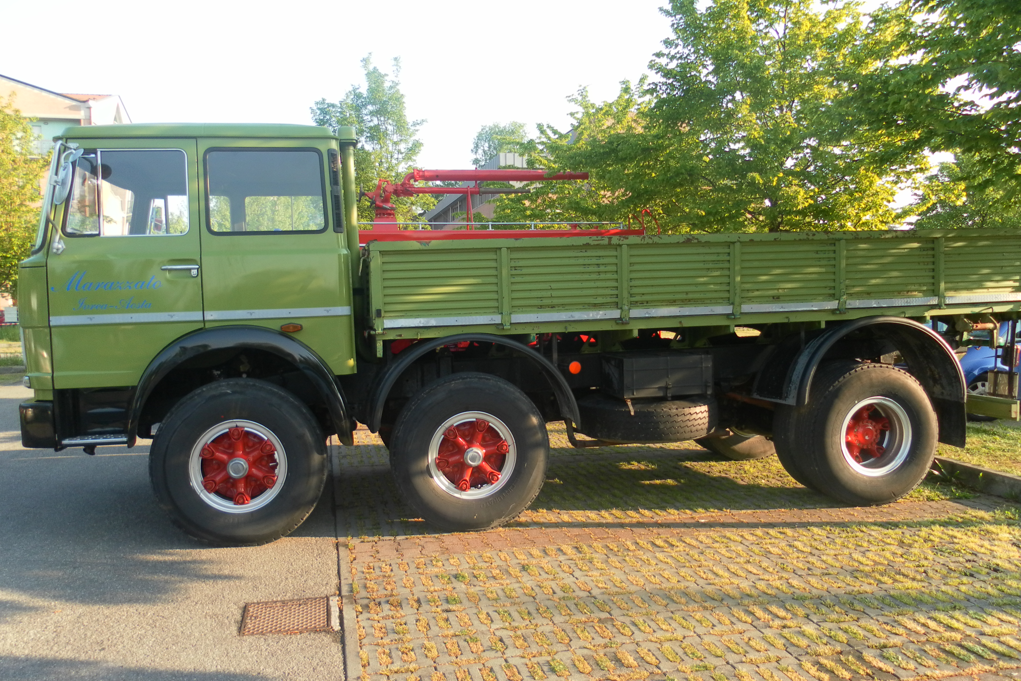 Fiat 691